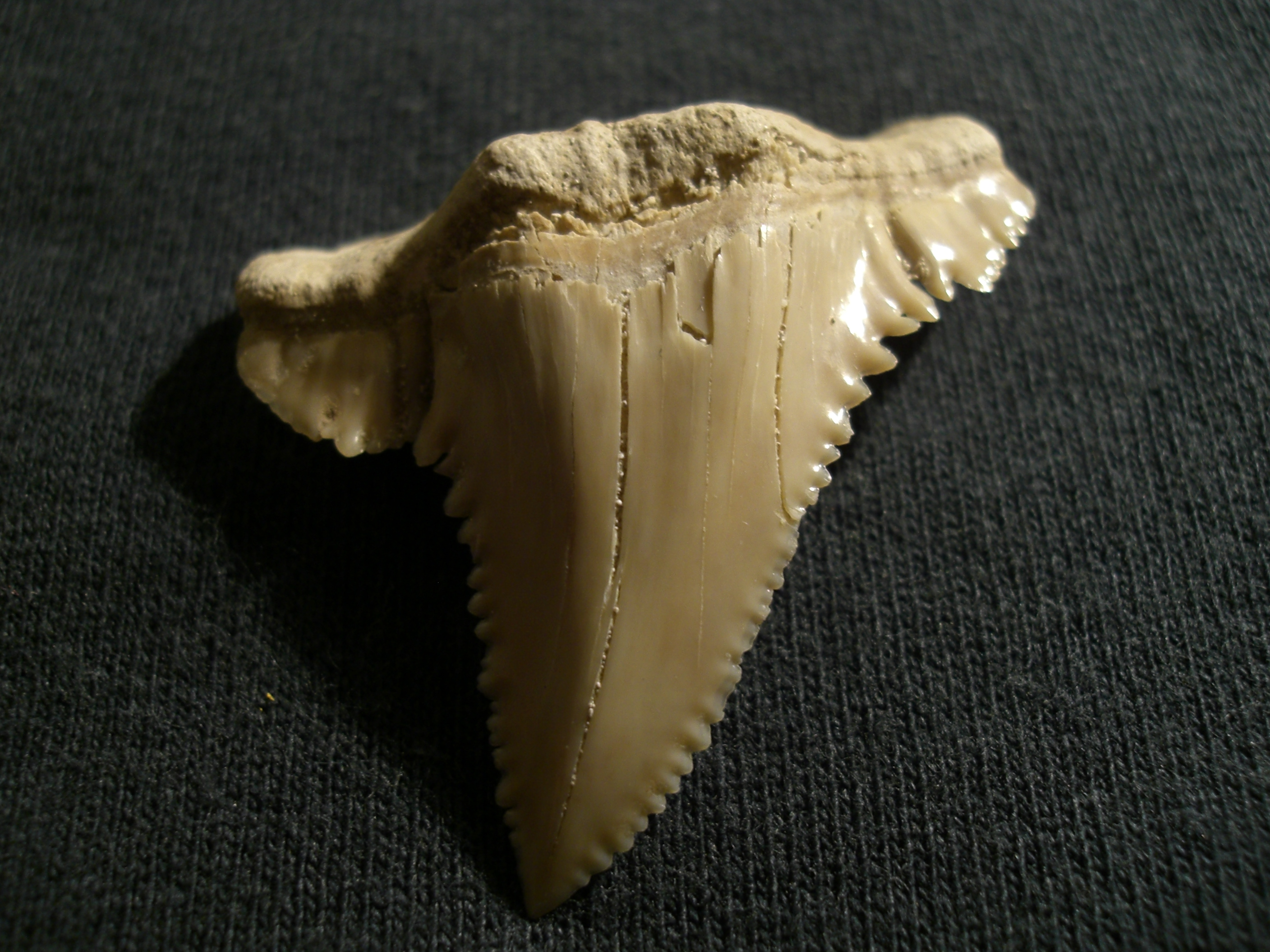 Tooth of Palaeocarcharodon which was found in Atlas mountain in Morocco. 60 million years old, long ~3 cm.